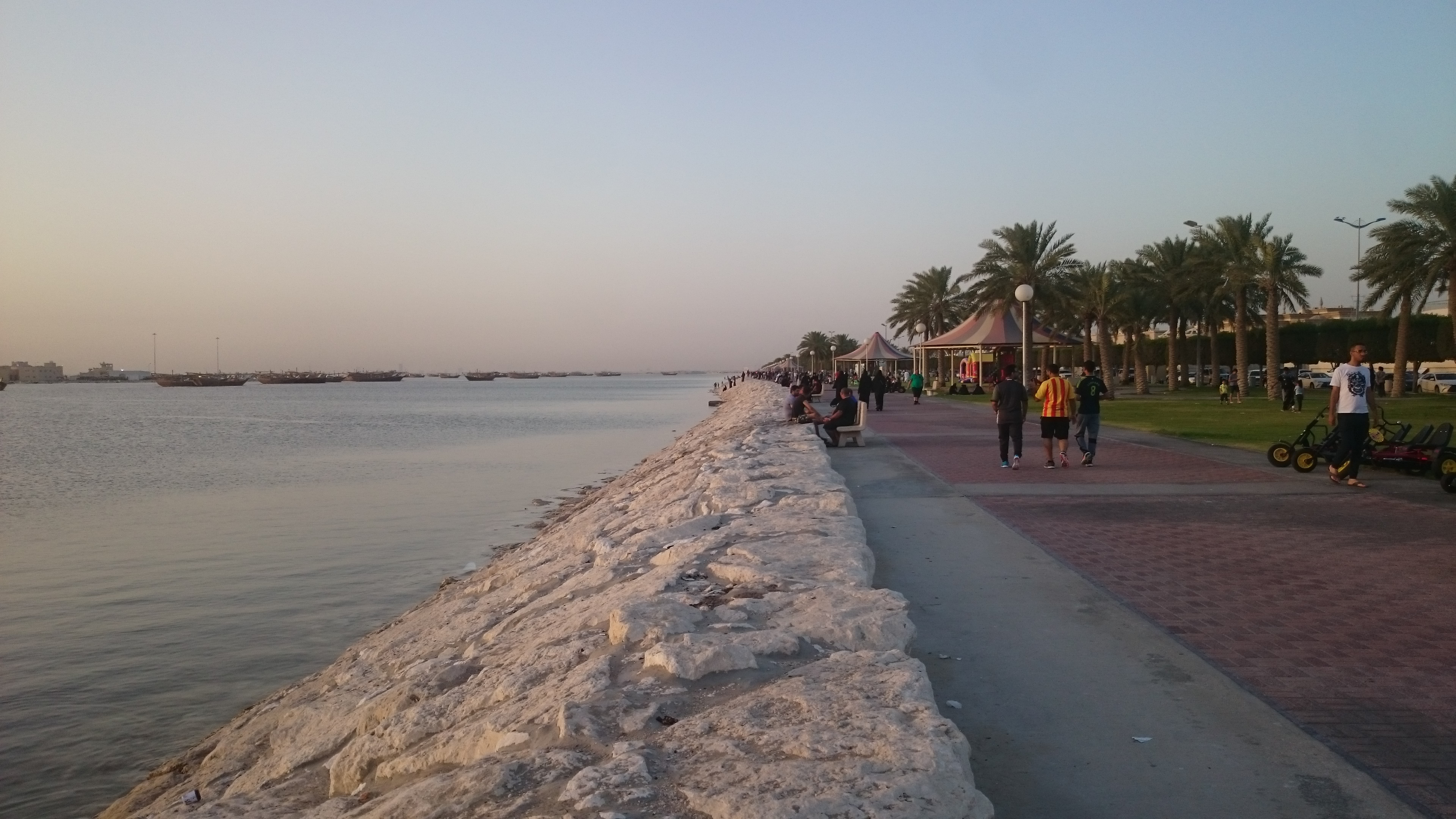 Qatif corniche in the morning